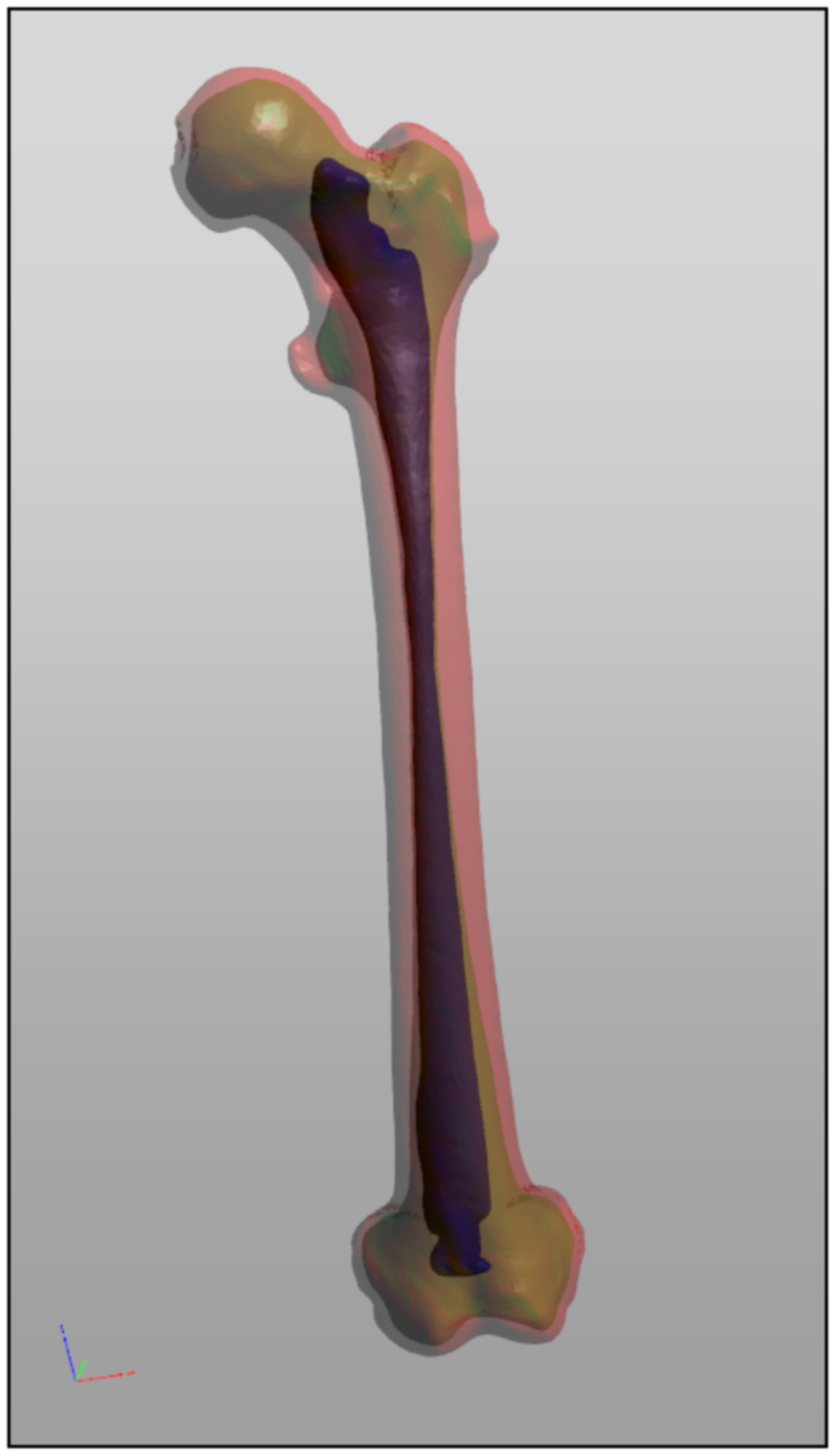 Model of a left human femur segmented with MeVisLab. The model shows the outer surface (red), the surface between compact bone and spongy bone (green) and the surface of the bone marrow (blue). - 3D version available via